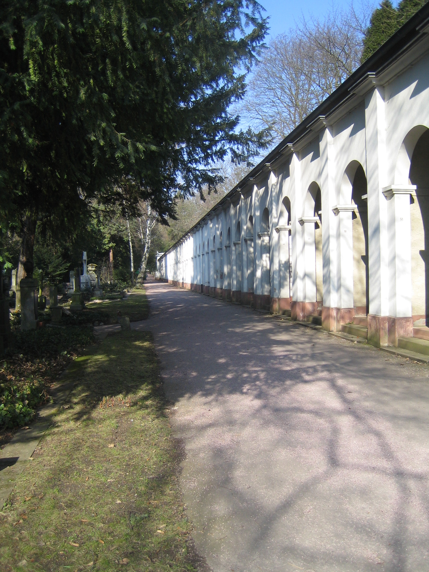 Gruftweg on main cemetery (Hauptfriedhof), Frankfurt/Main